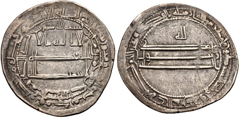 ISLAMIC, 'Abbasid Caliphate. temp. al-Saffah. AH 132-136 / AD 749-754. AR Dirhem (24mm, 2.84 g, 10h). al-Kufat mint. Dated AH 133 (AD 750/1). Album 211. VF, toned.